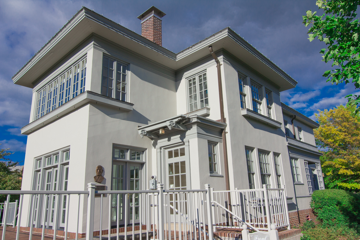 100px